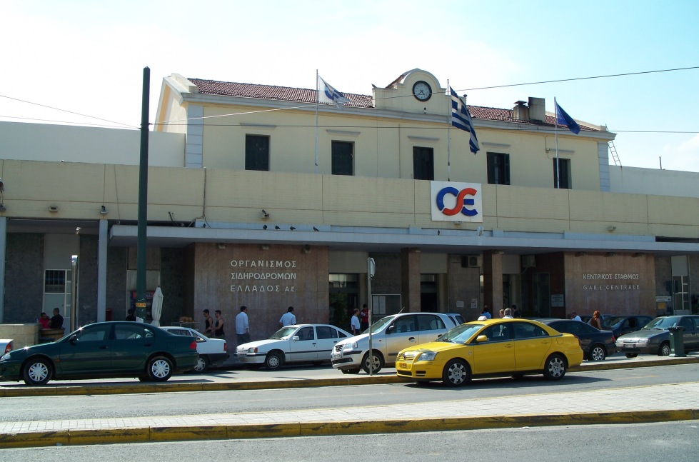 The central railway station in Athens, Greece